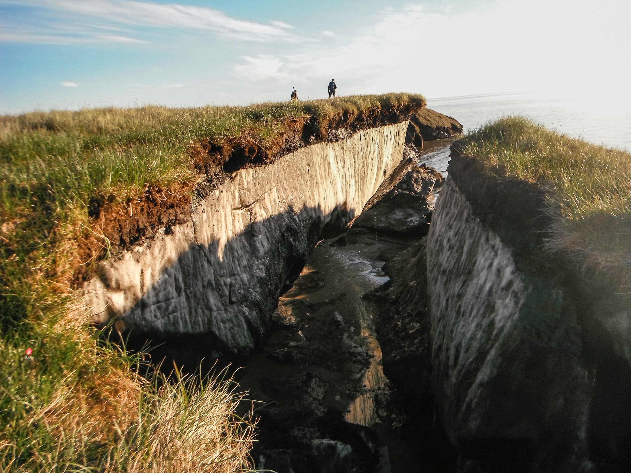 Coastal erosion reveals the extent of ice-rich permafrost underlying active layer on the Arctic Coastal Plain in the Teshekpuk Lake Special Area of the National Petroleum Reserve - Alaska. Credit: Brandt Meixell, USGS